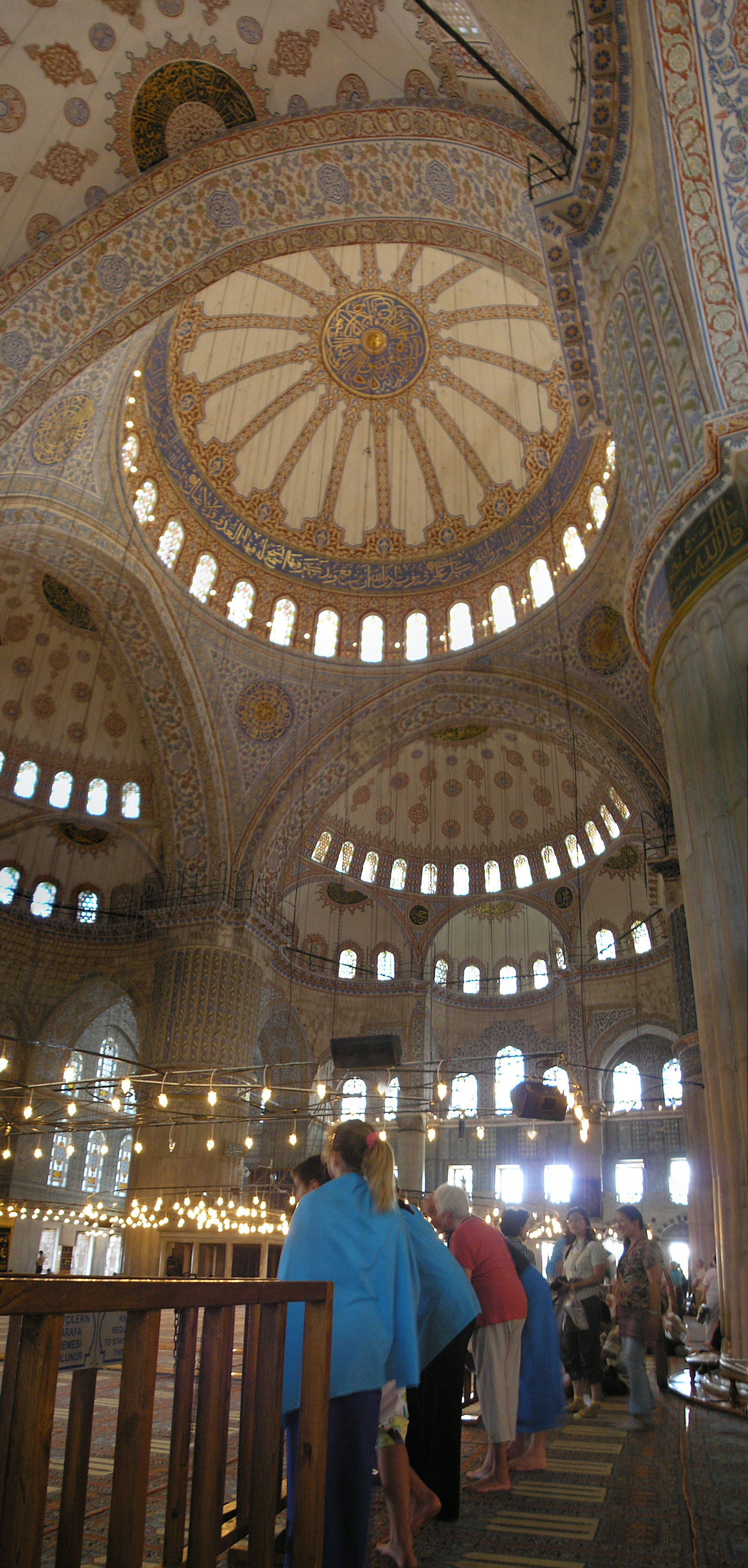 Interior view of the Blue mosque in Istanbul.